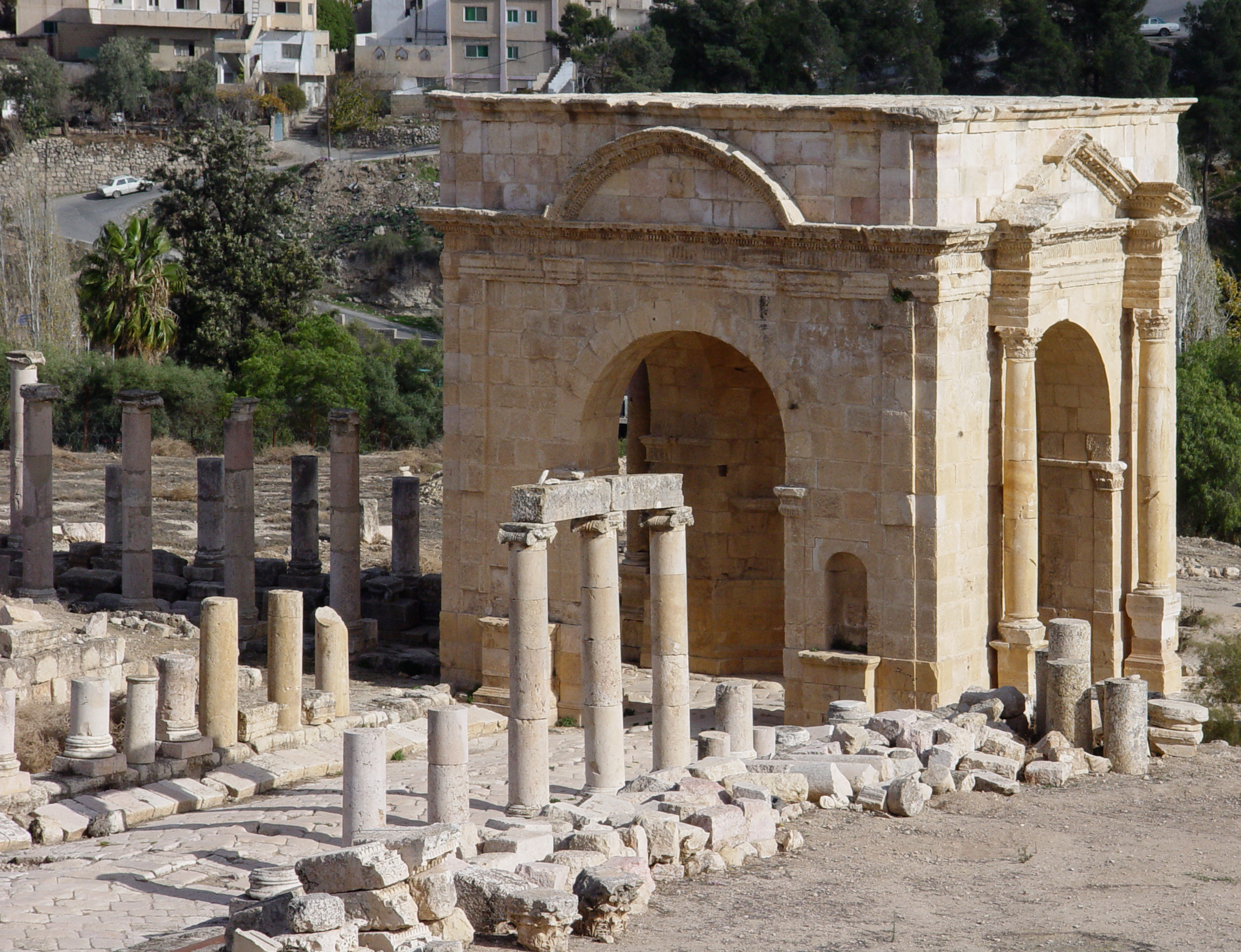 Northern Tetrapylon, Jerash, Jordan